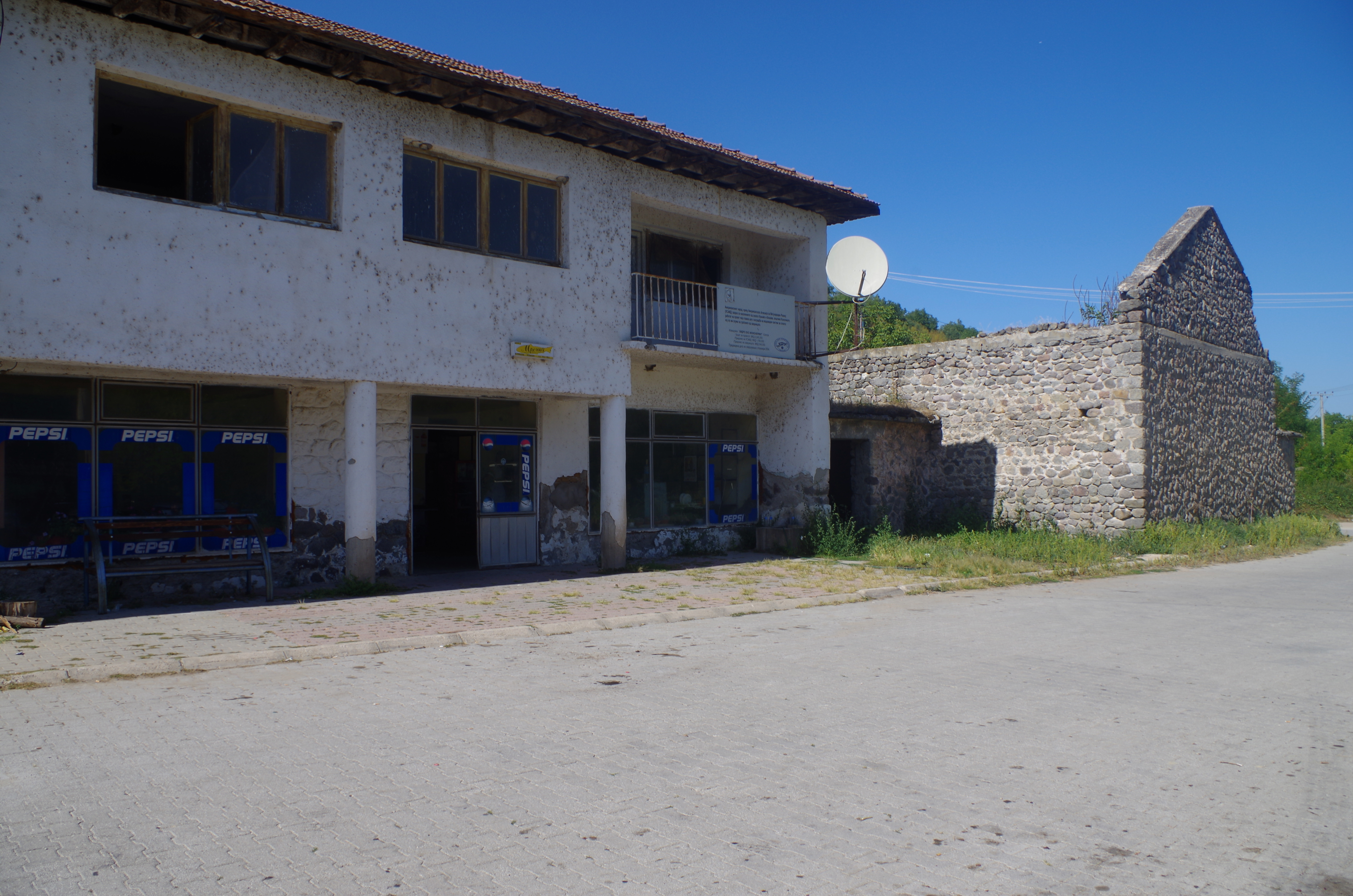 Building with a food shop in the village of Krnjevo